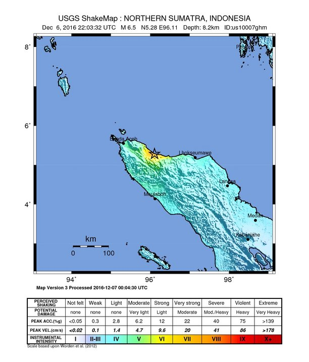 Shakemap for the 2016 Aceh Earthquake in December 6. Epicentre near Sigli.